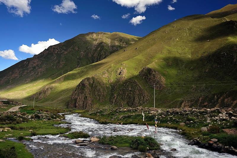 Near Tsurphu Monastery, Doilungdêqên County, Tibet